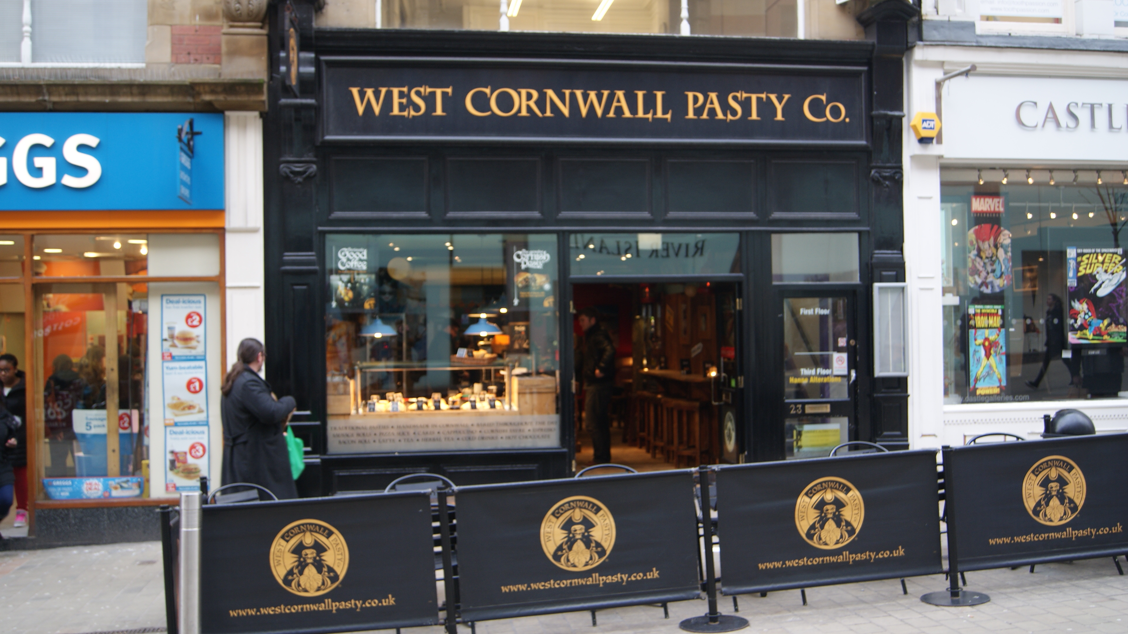 West Cornwall Pasty Co. Albion Place, Leeds, West Yorkshire. Taken on the afternoon of Wednesday the 20th of February 2013.